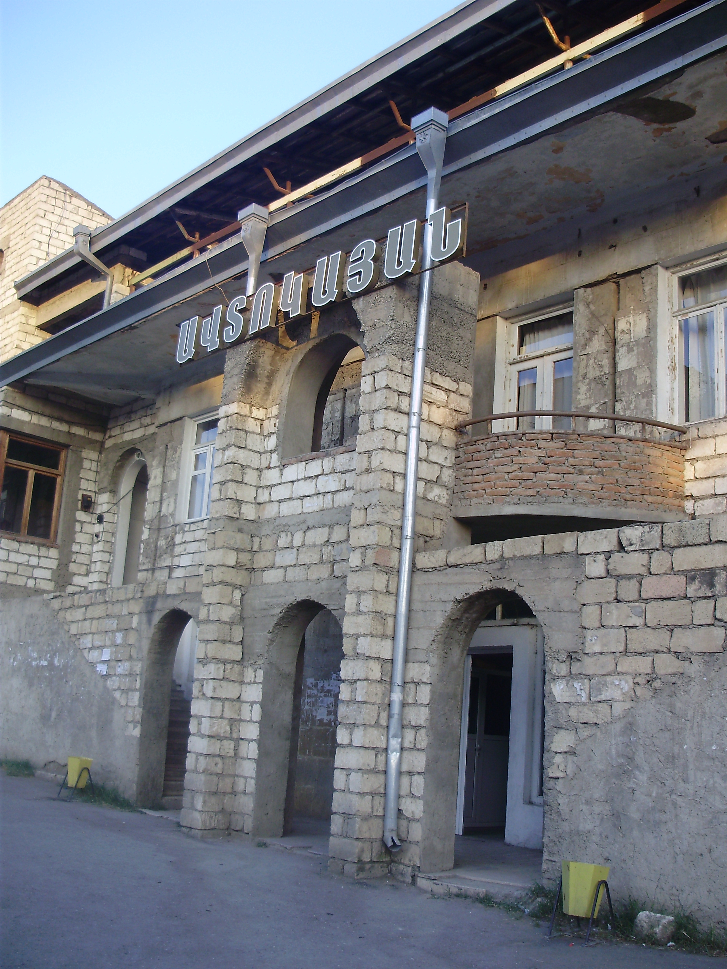 Central bus station of Stepanakert. Artsakh, Republic of Mountainous Karabakh.